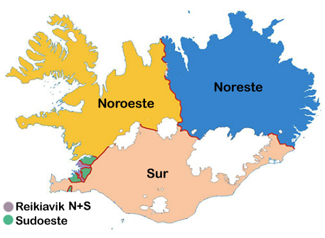 Constituencies of Iceland. Labels in Spanish.